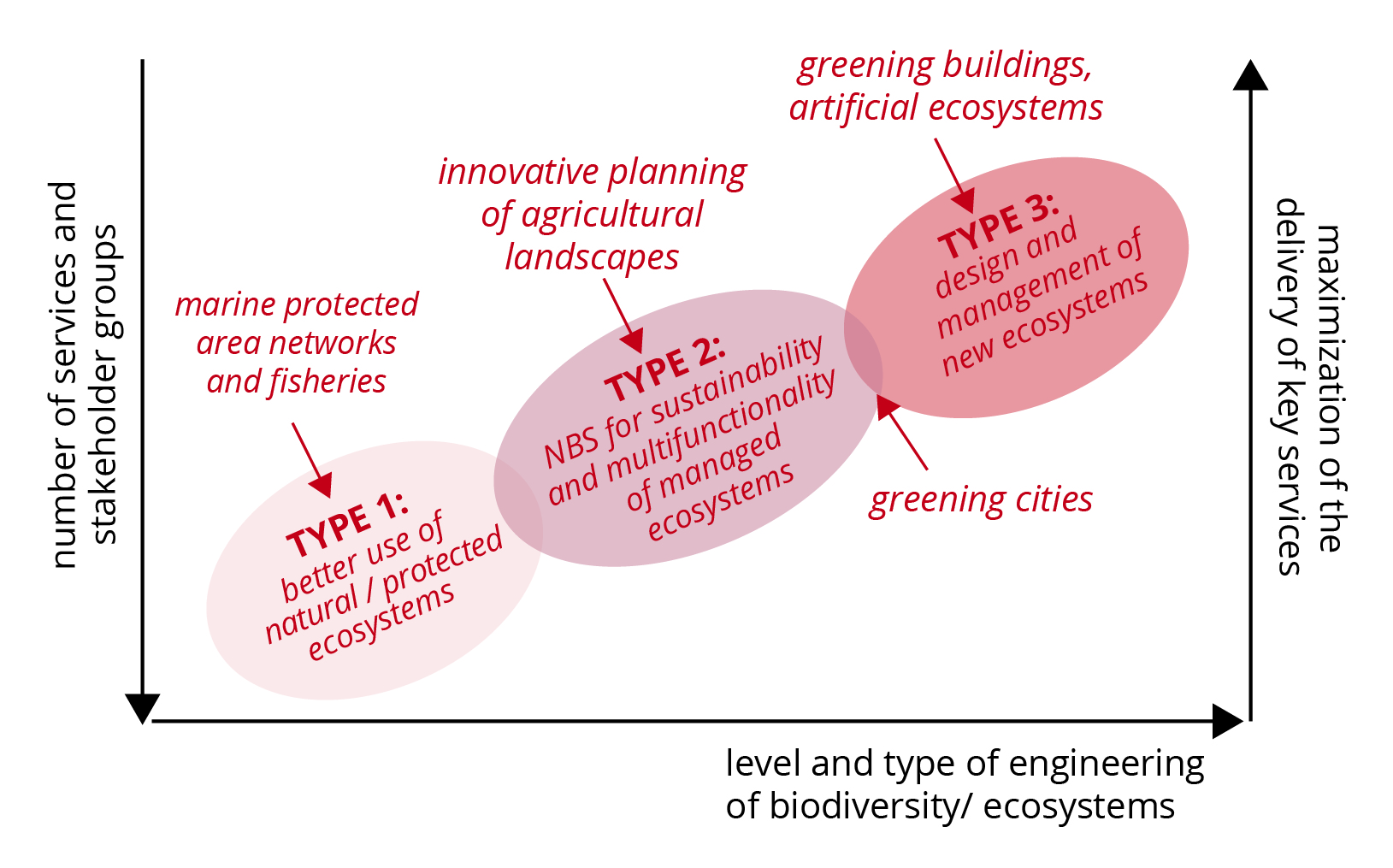 Schematic presentation of the NBS typology, according to Eggermont et al. (2015)